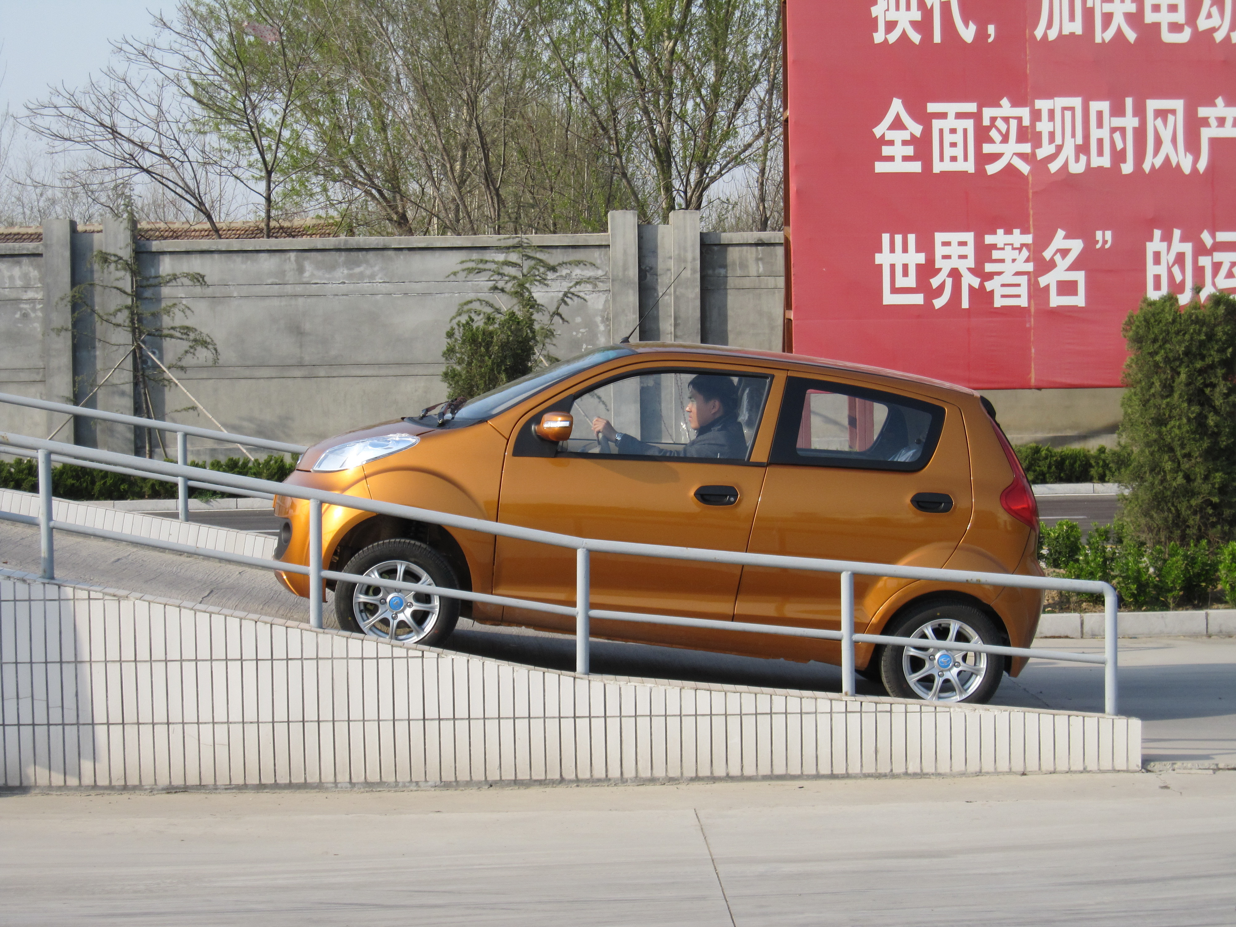 Zee CITY S on testride are at Shifeng Motors (Partner of myZee Europe)